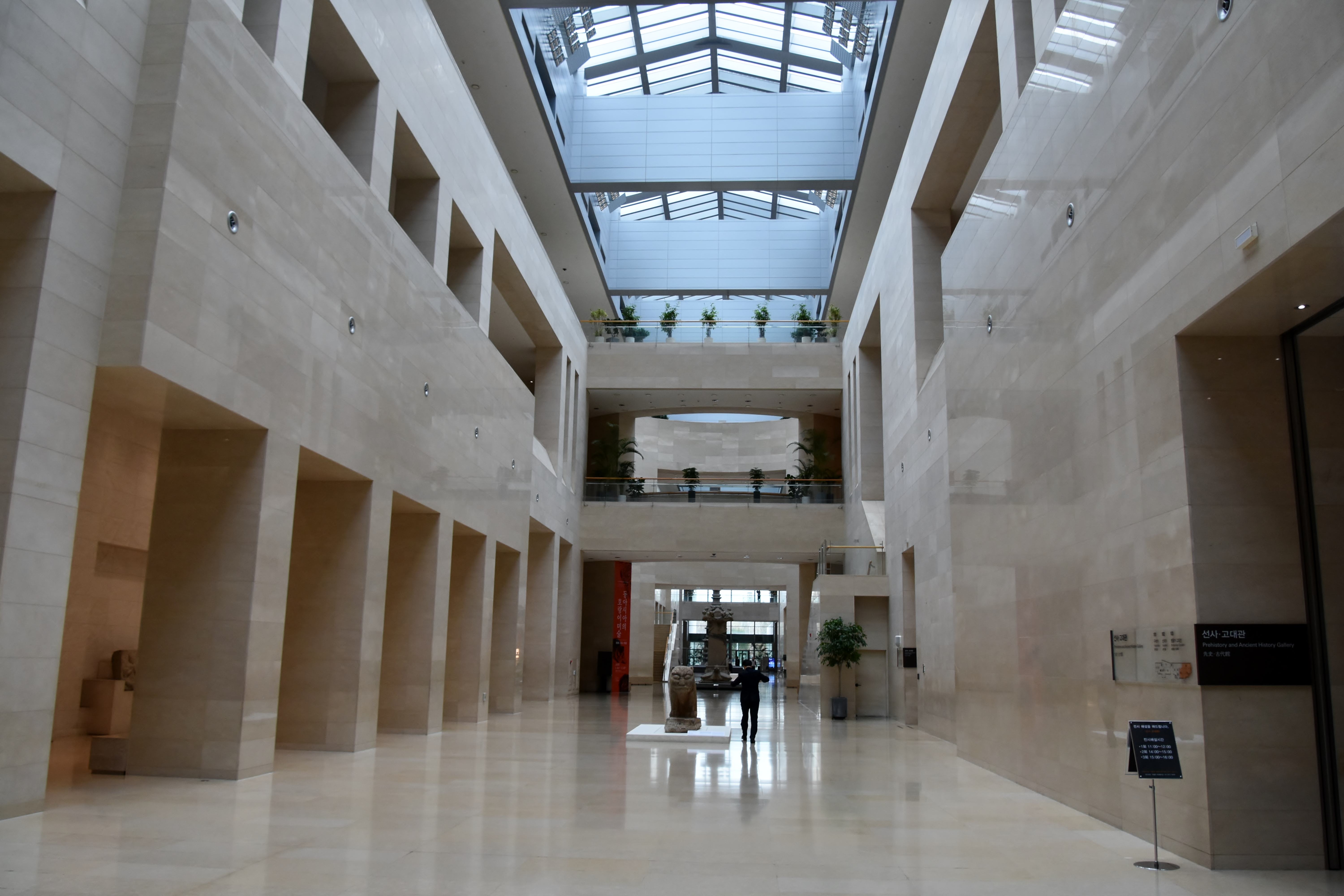 National Museum of Korea, Seoul (1)